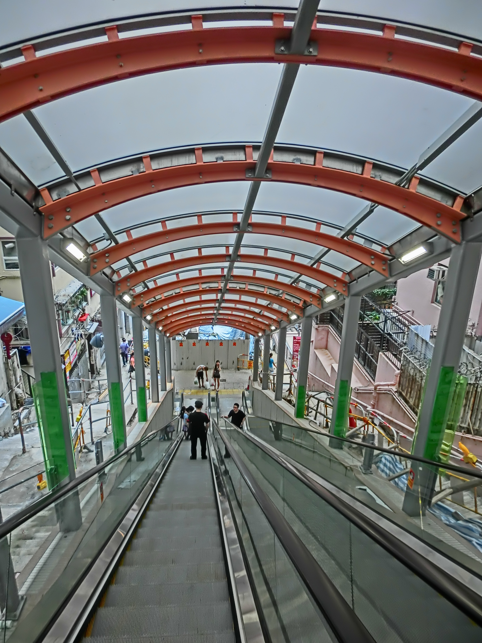 西環 正街自動扶梯連接系統, Covered Escalators in Centre Street, Sai Ying Pun, Hong Kong